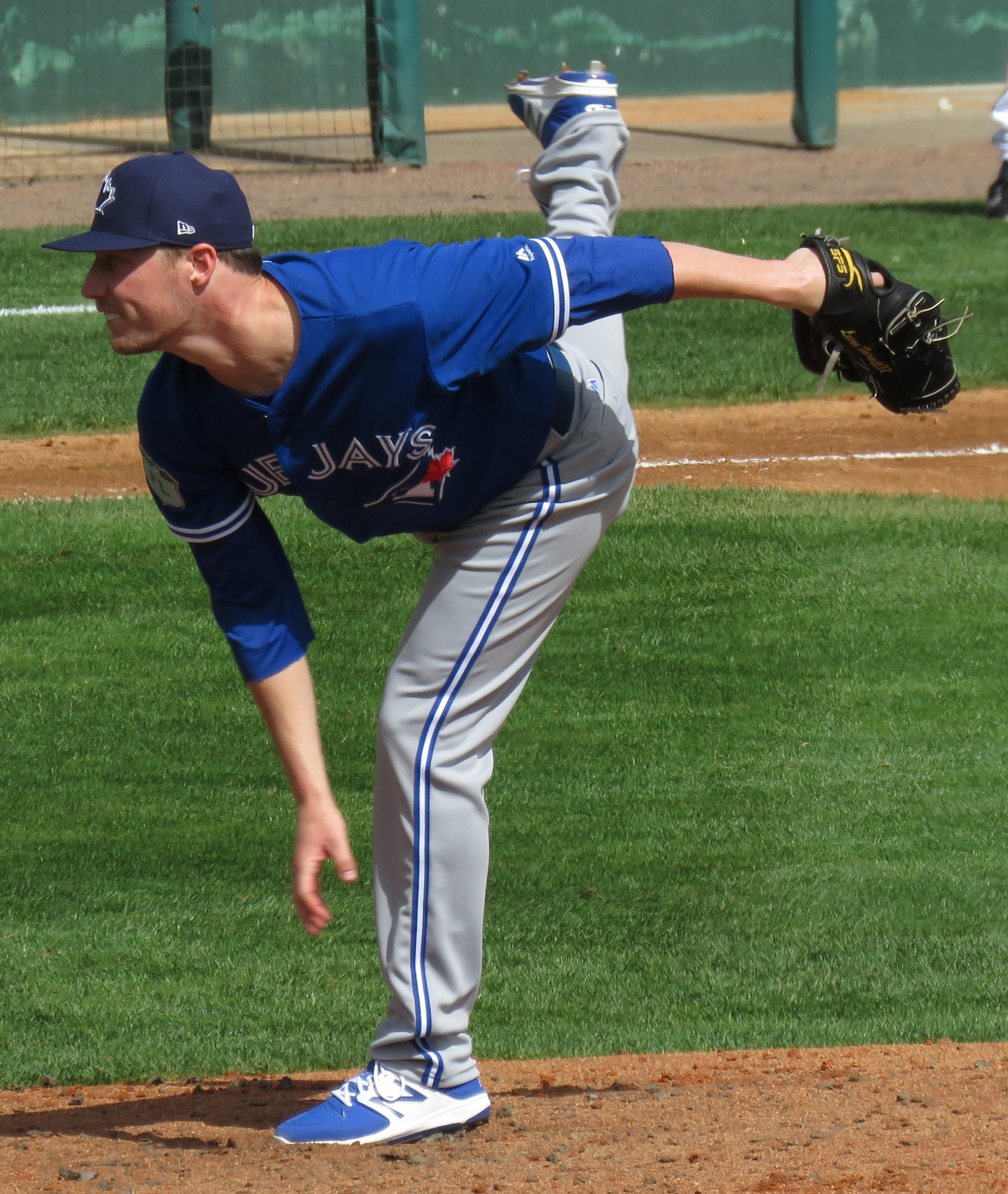 Lucas Harrell